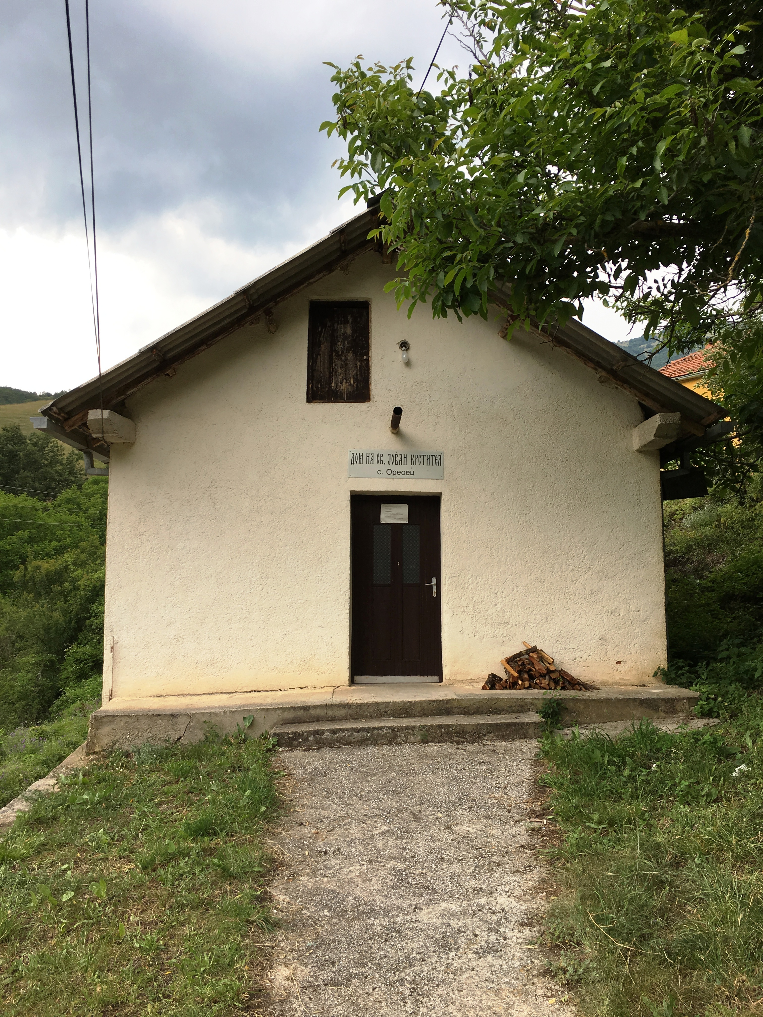 House of John the Baptist in the village of Oreovec